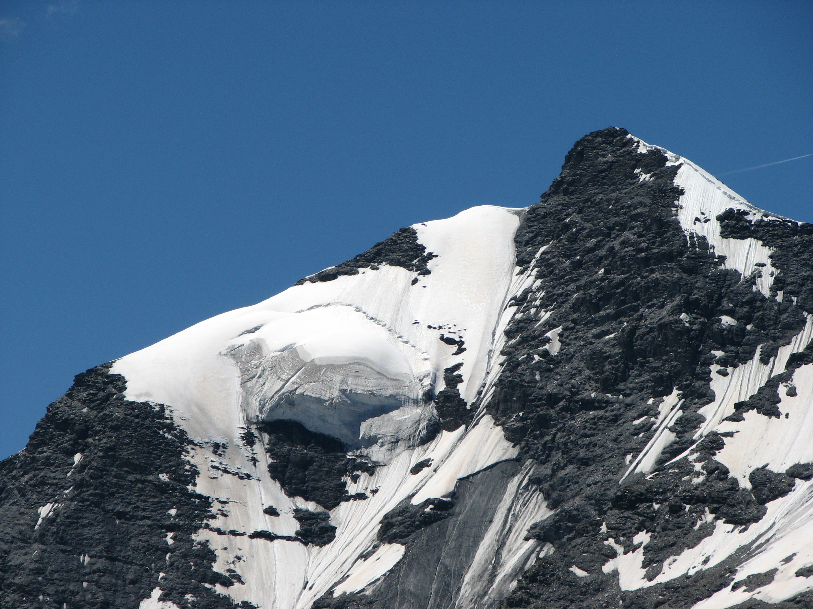 Petite or Grande Sassiere, from the Piano di Vaudet, Valgrisenche valley above Bezzi